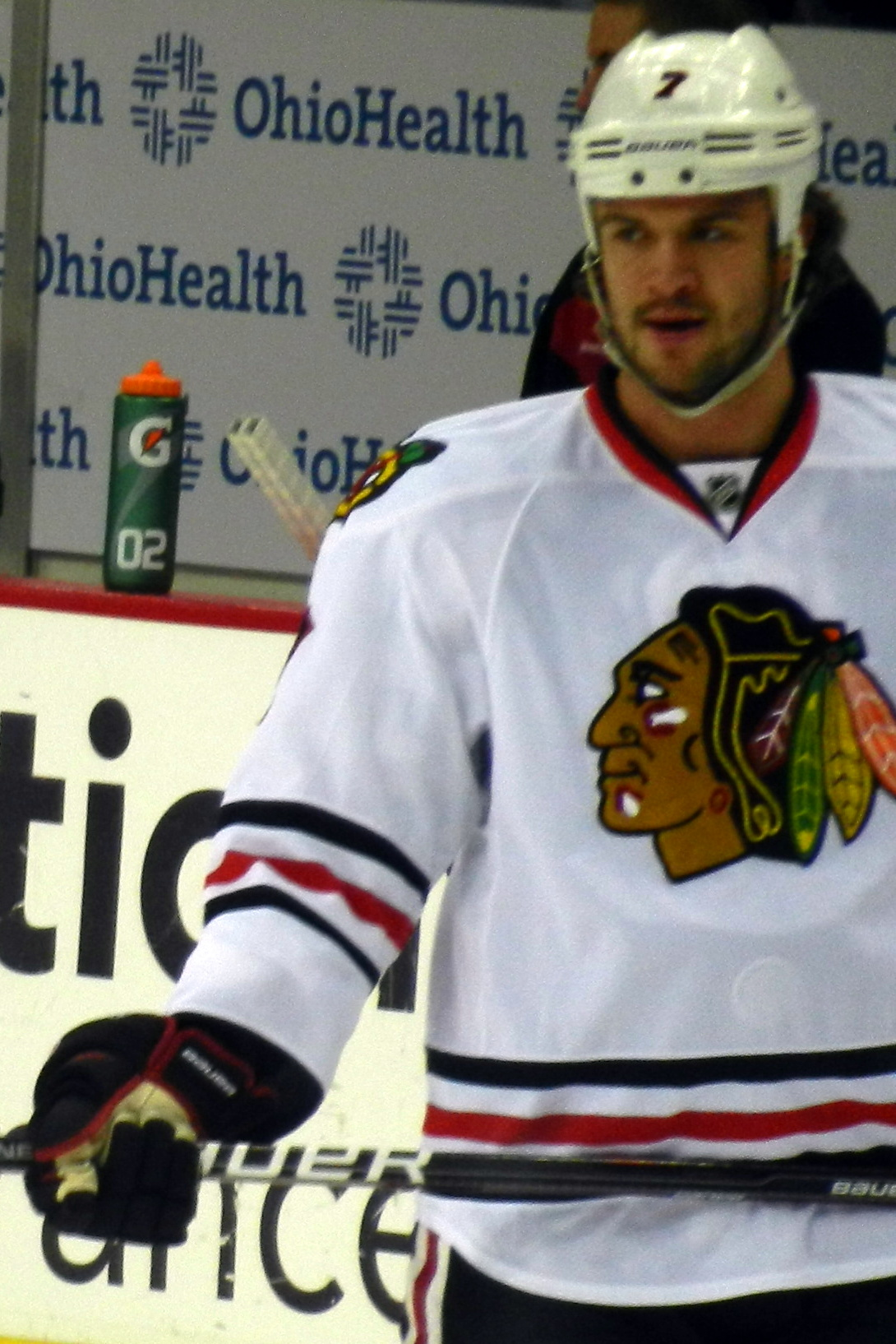 Brent Seabrook playing for the Chicago Blackhawks in a game vs. the Columbus Blue Jackets during the 2011-12 NHL season